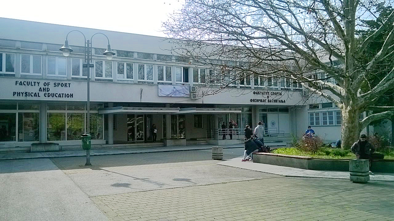 main entrance of faculty of sport and physical education Српски (ћирилица): Главни улаз факултета спорта и физичког васпитања